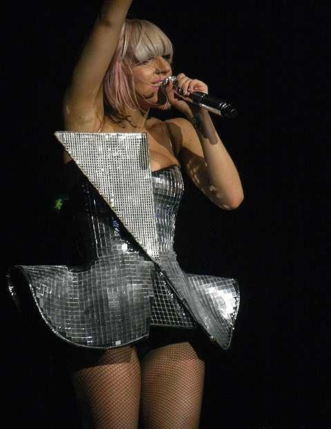 Lady Gaga performing "Beautiful, Dirty, Rich" on The Fame Ball Tour, at Brixton Academy, London.